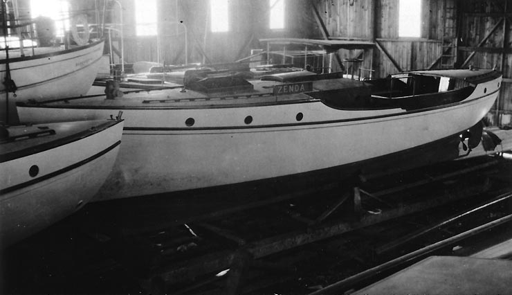 Motorboat Zenda in a boathouse during private use between 1912 and 1917, prior to 1917-1919 U.S. Navy service as USS Zenda (SP-688) Original description: In a boathouse prior to World War I. This boat was acquired by the Navy on 19 May 1917 and commissioned on 25 June 1917 as USS Zenda (SP-688). She was returned to her owner on 30 January 1919. The boat partially visible in the left background is Margaret O, which served as USS Margaret O (SP-614) and USS SP-614 in 1917-1919. Photo #: NH 102579